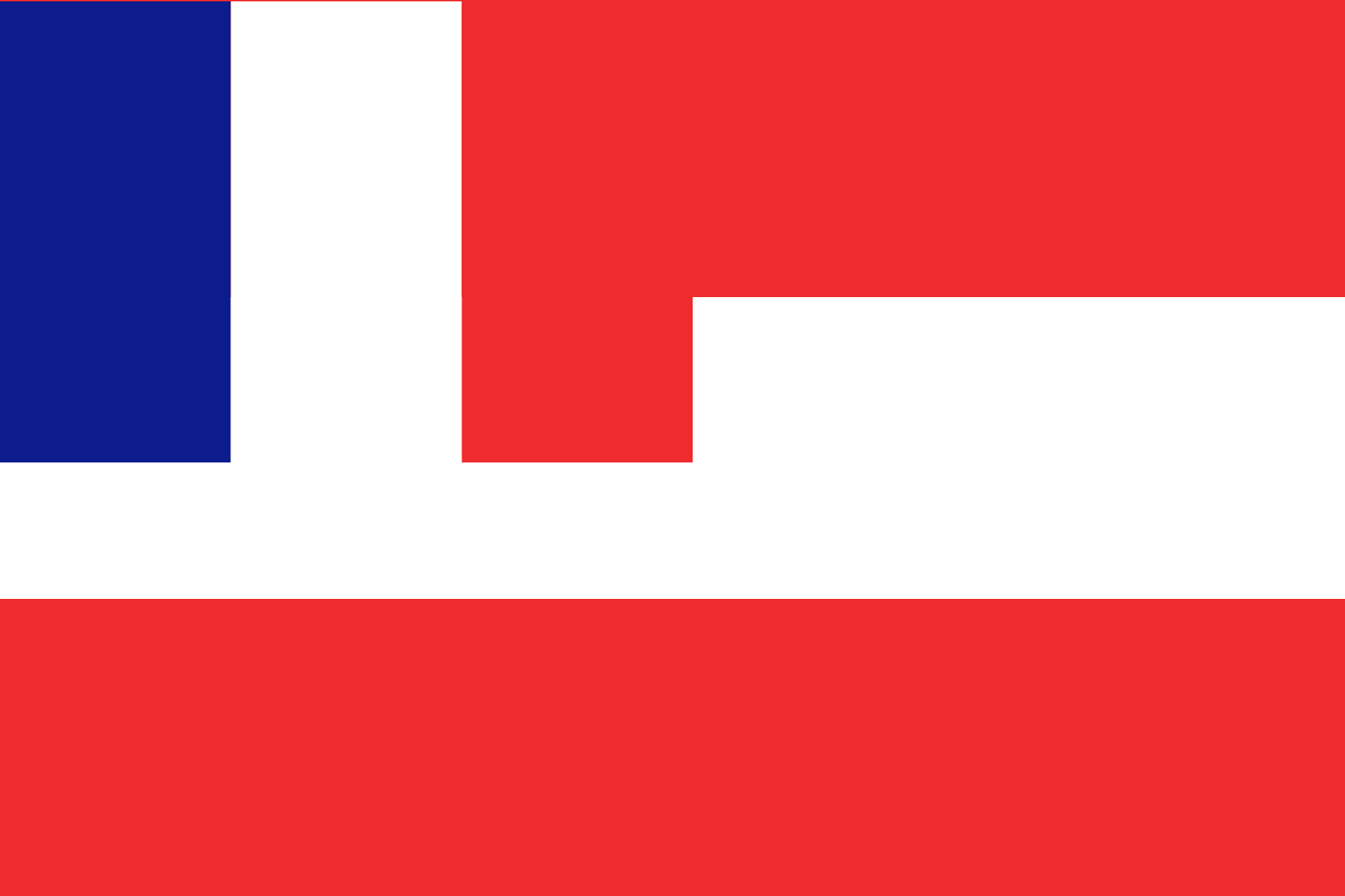 Flag of French Protectorate of Polynesia (1845-1880)